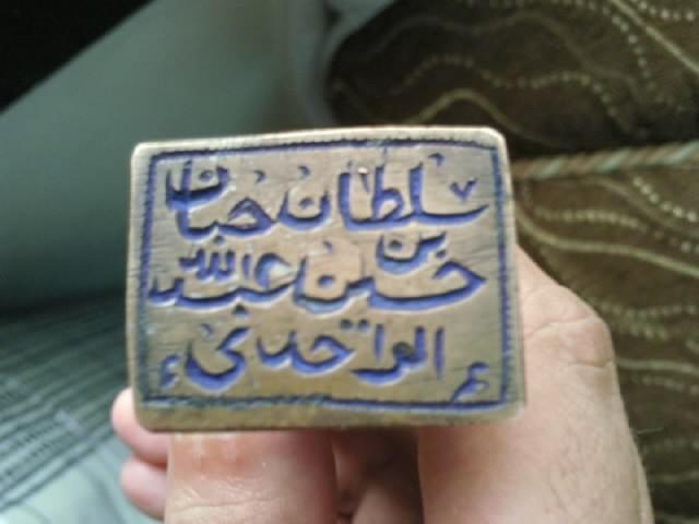 ختم السلطان حسين